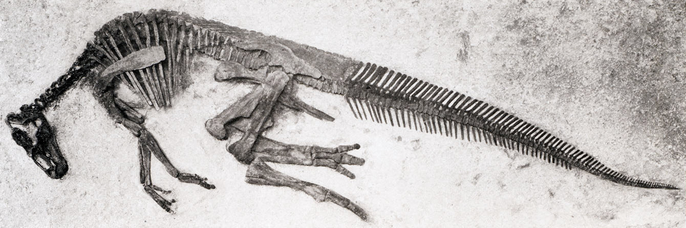 CMNFV 8399, the holotype skeleton of Thespesius edmontoni GILMORE 1924, here figured in a book from 1917 as “Trachodon annectens” (i.e. Edmontosaurus annectens). Thespesius edmontoni currently is considered a junior synonym of Edmontosaurus regalis.